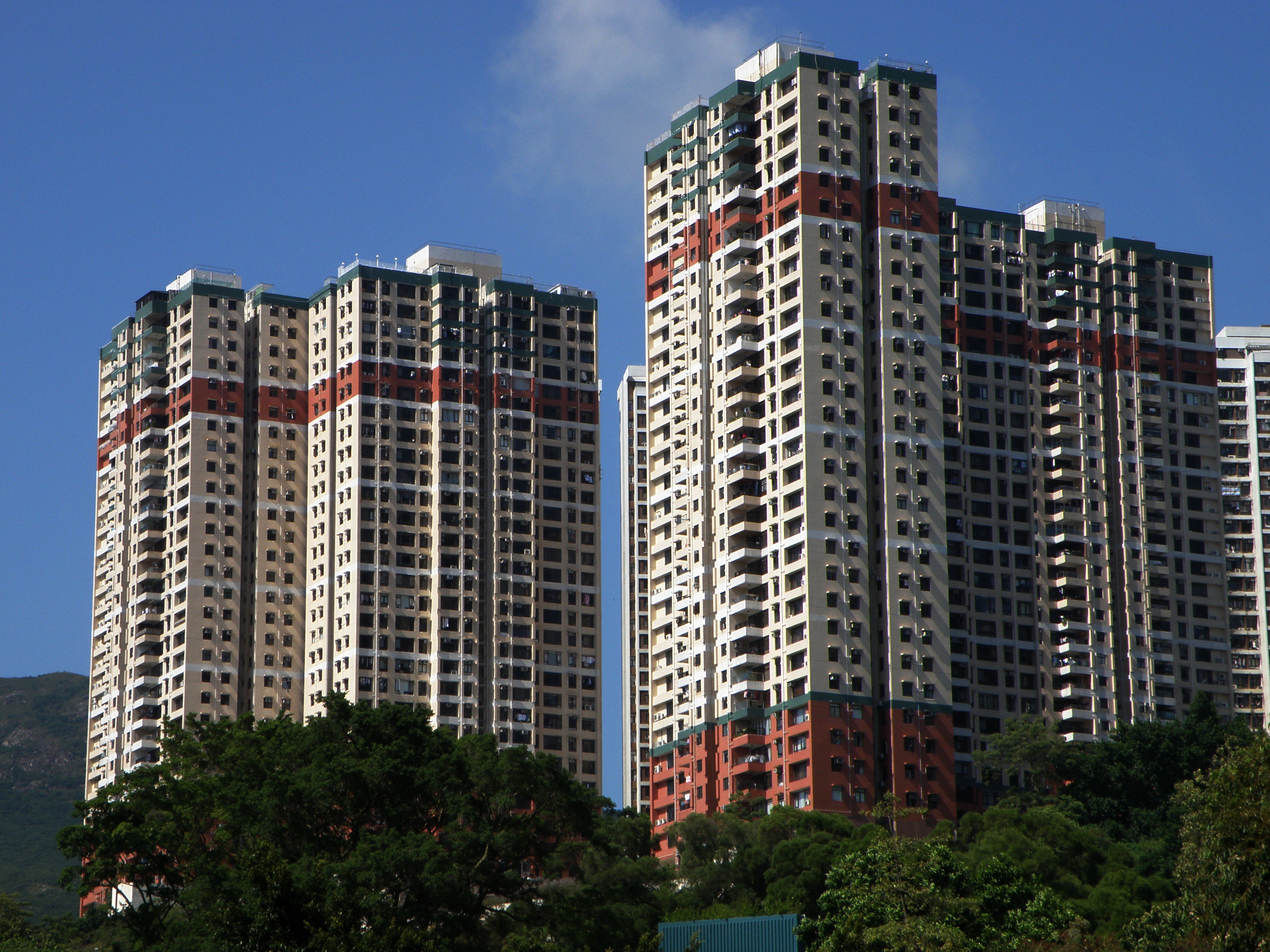 Pokfulam Gardens in Pok Fu Lam, Hong Kong.